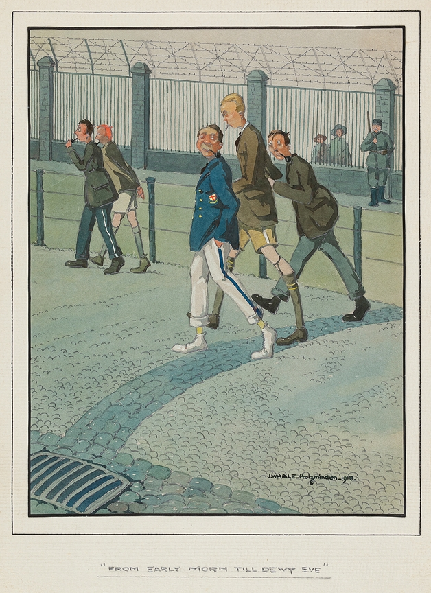 ‘Holzminden / From Early Morn to Dewy Eve’ by James Whale. British POW at Holzminden, the WW1 German Camp. Ink and watercolour. Backing size: 19.75x12.75 inches. Signed, inscribed and dated, 1918. Offered for sale by Abbott & Holder in February 2019.